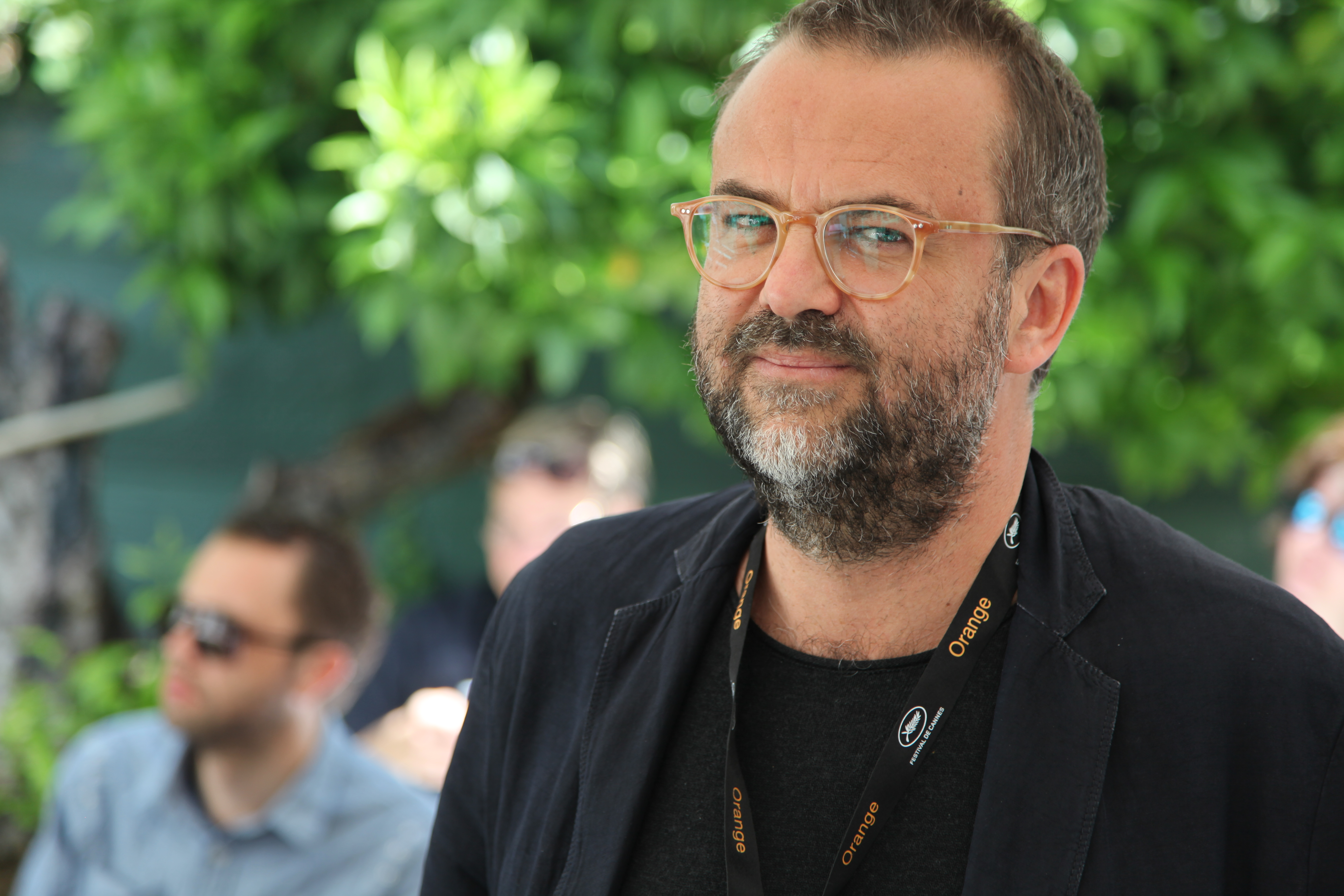 Lars Jönsson at 2012 Cannes Film Festival